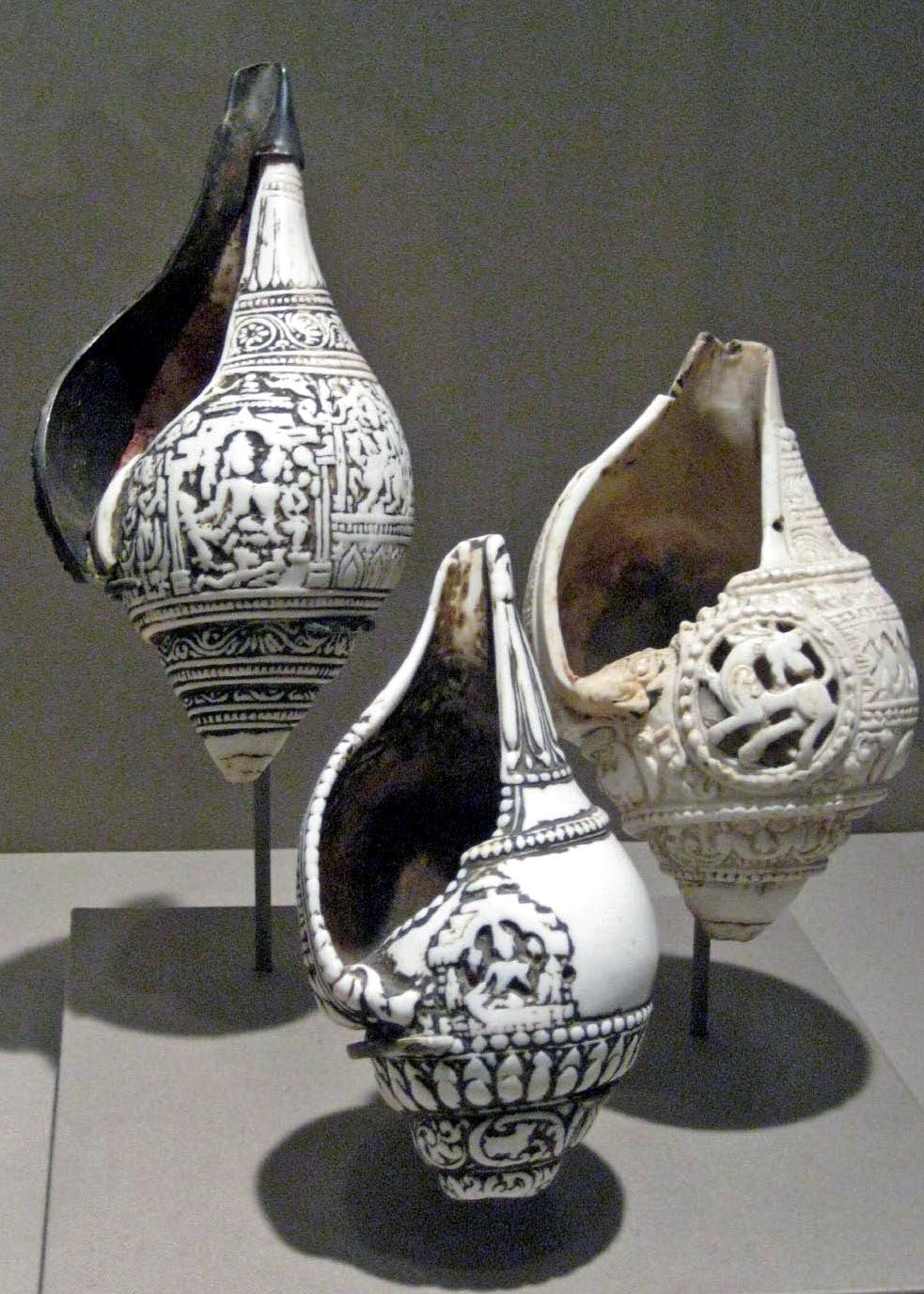 Left: with Lakshmi Narayana (Bangladesh or India's West Bengal state), Pala period, 11th - 12th century Sheel with silver additions Middle: India, Pala period, ca. 11th century Shell Right: India, pala period, 11th century or earlier Shell